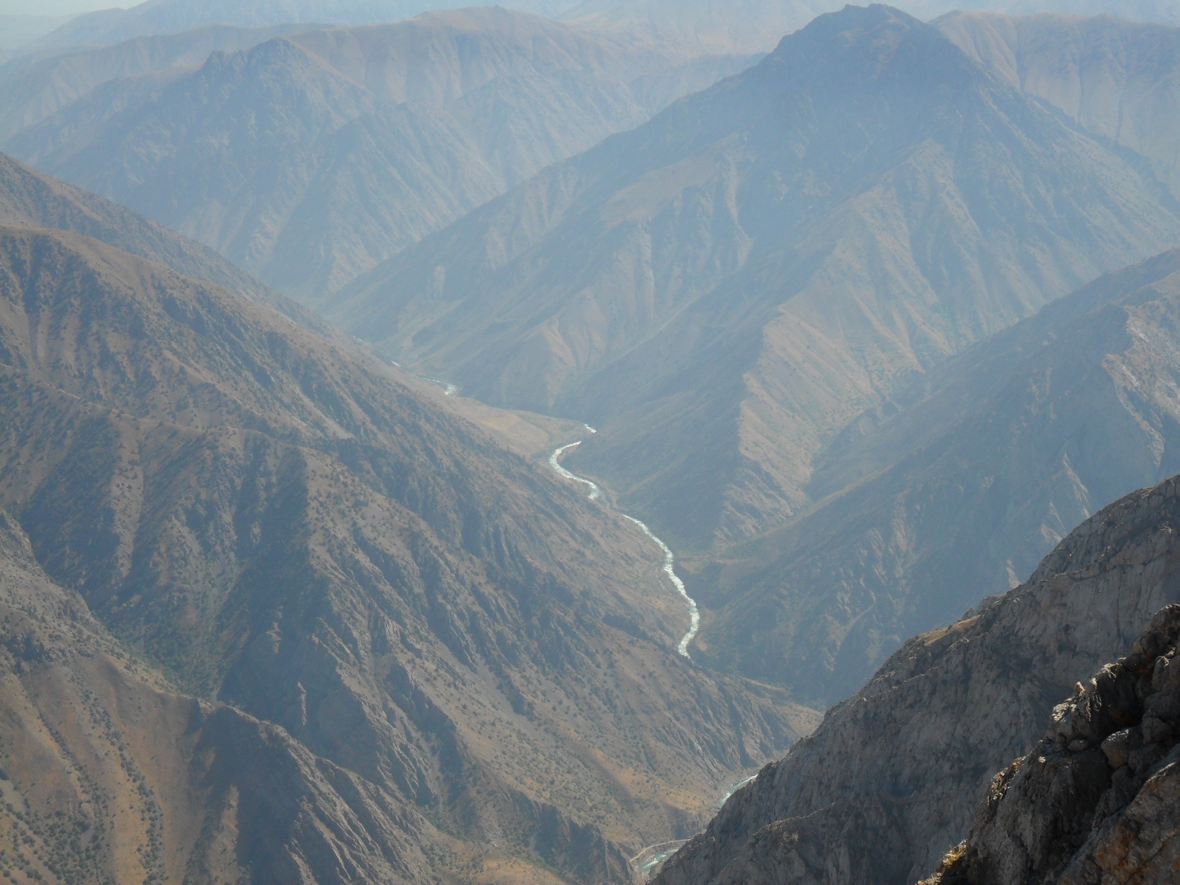 Chatkal river view from Aukashka peak. Uzbekistan